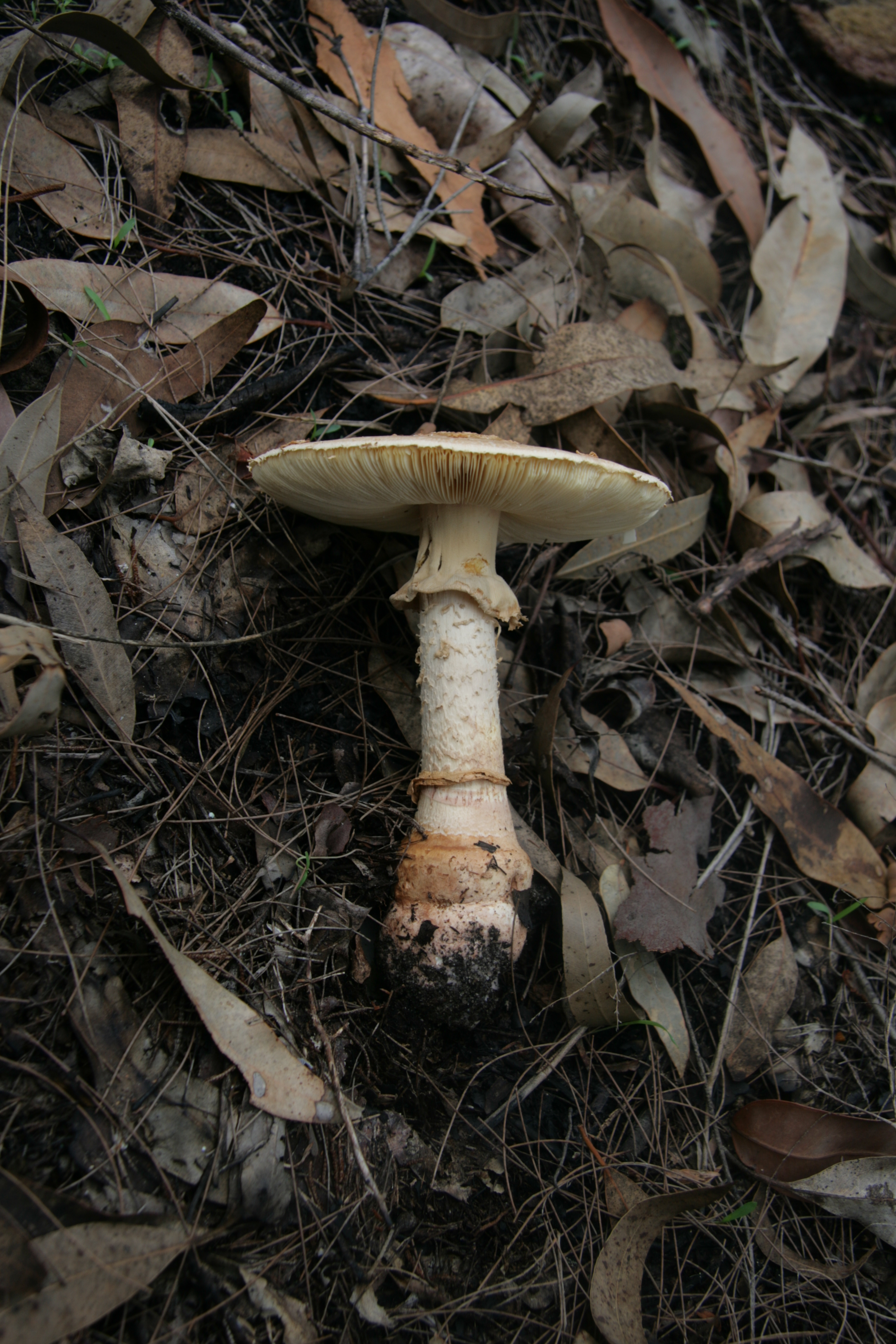 Amanita ochrophylla growing in sandy soil in open woodland with Allocasuarina torulosa and myrtaceae, Georges River National Park